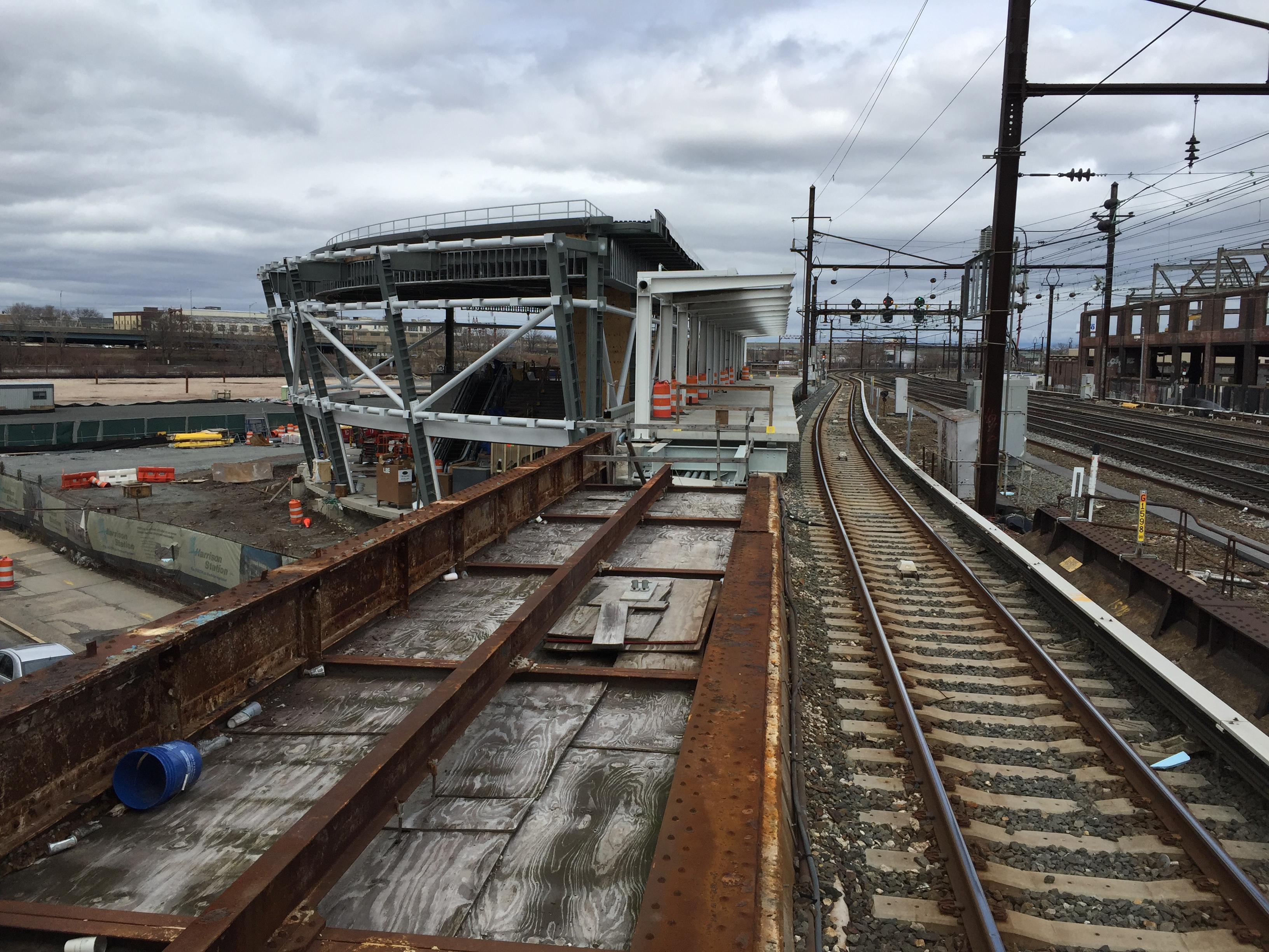 Harrison NJ PATH Station construction, April 2017, looking east